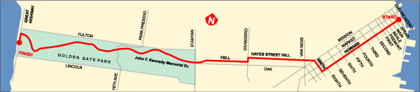 Bay to Breakers Map